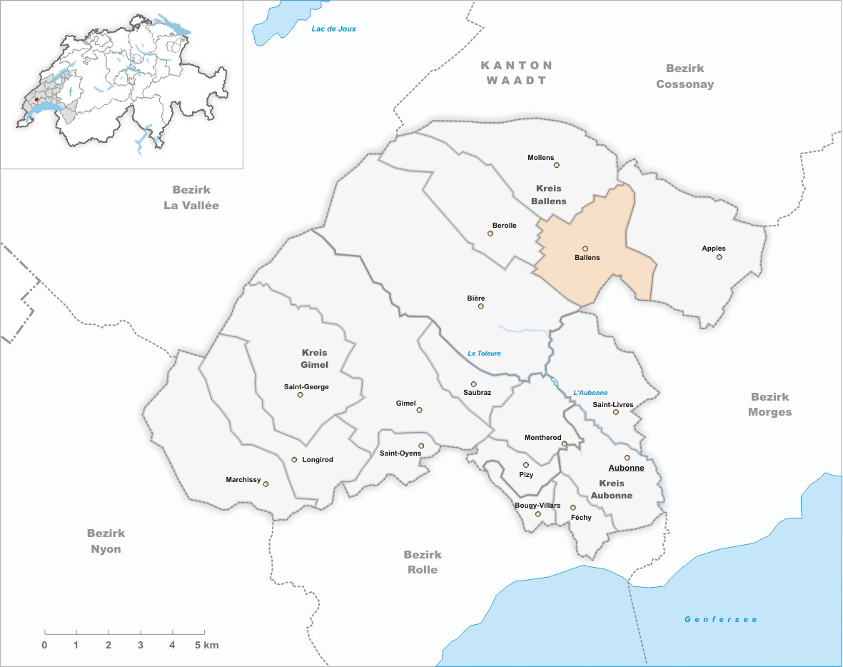 Municipality Ballens